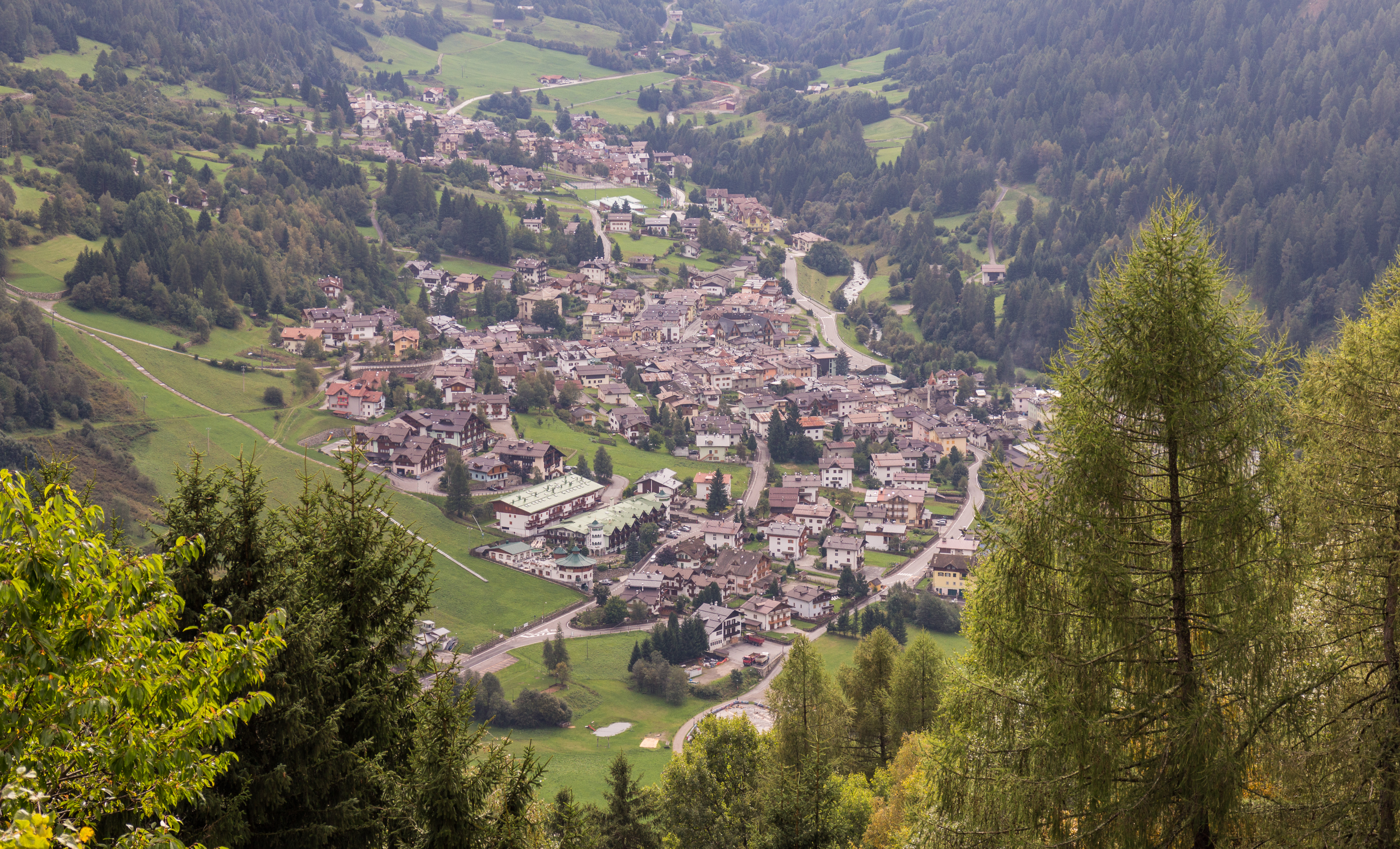 Stroll across the botanical path from Cogolo to Peio Paese. View Cogolo.